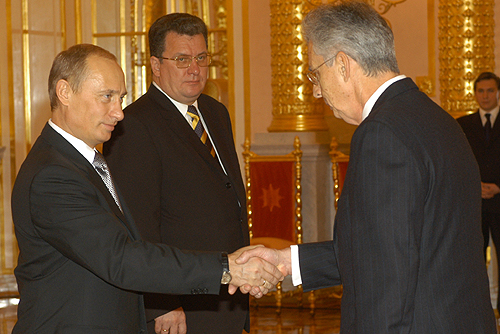 THE KREMLIN, MOSCOW. President Putin receiving the credentials of Ambassador of France Jean Cadet.